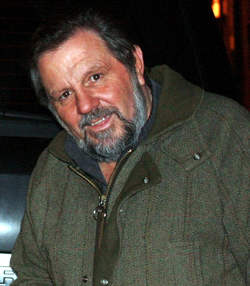 This image is of the comedian Jethro, outside the stage door of The Little Theatre in Retford, Nottinghamshire, after his show there on 29th October 2008.